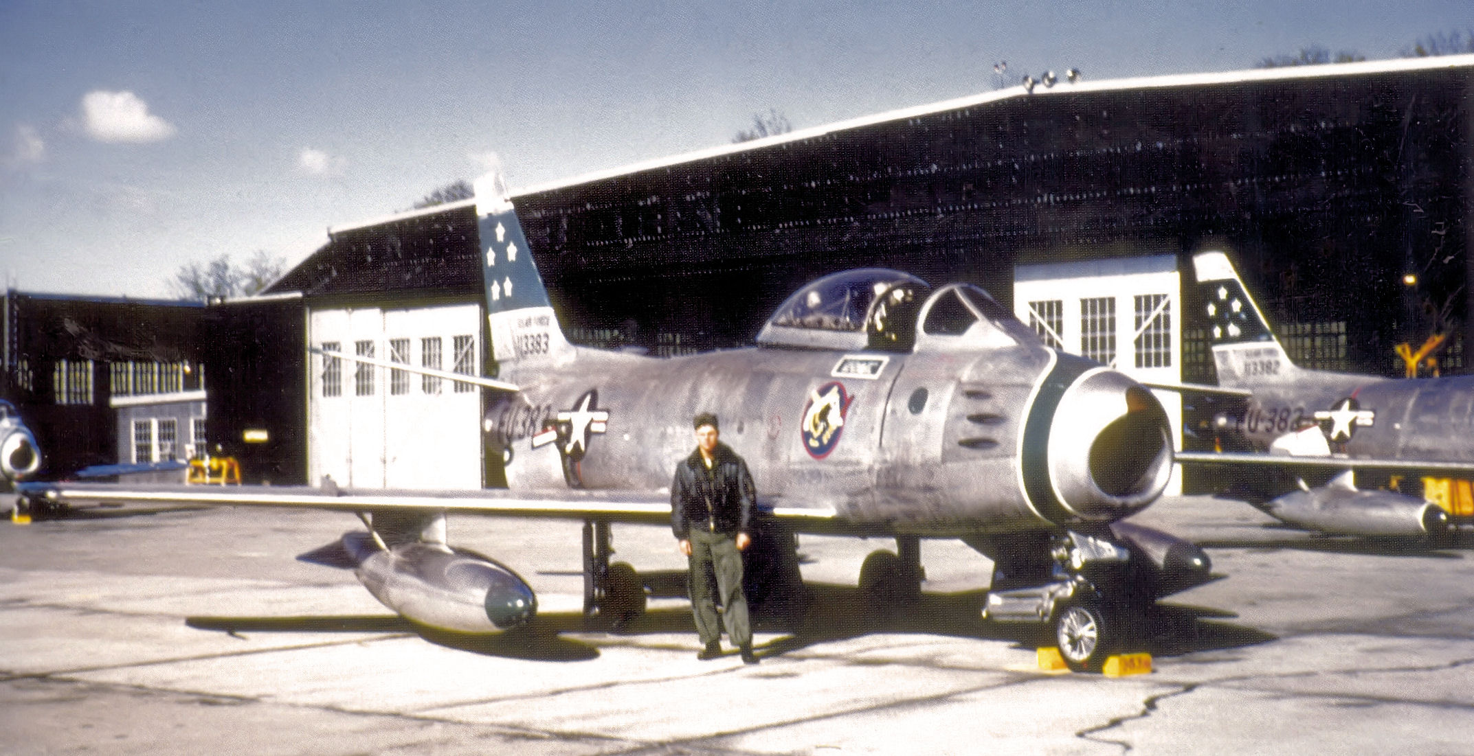 330th Fighter-Interceptor Squadron North American F-86F-25-NH Sabre 51-13383 4709th Air Defense Wing, Stewart AFB, New York, 1954